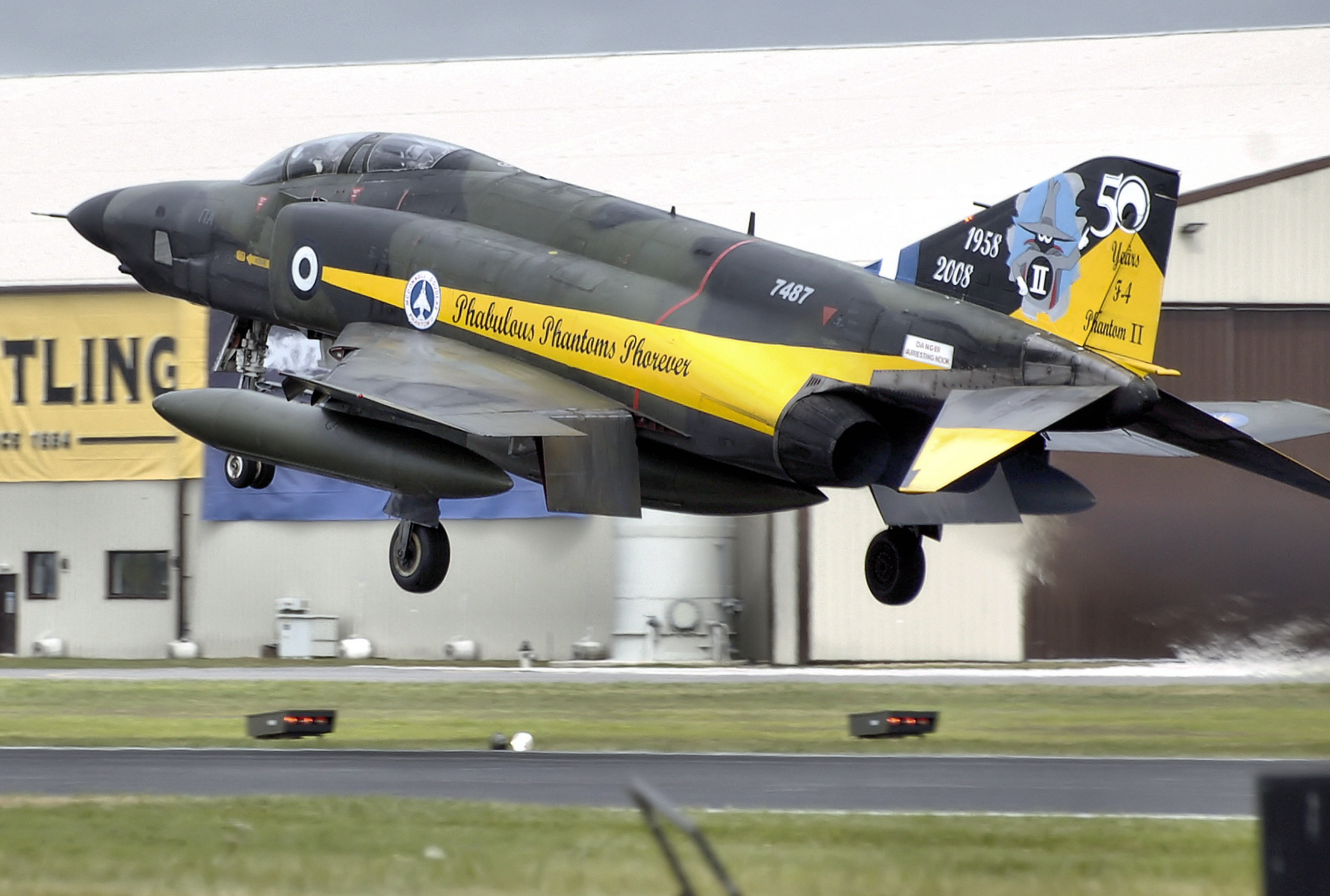 Hellenic (Greek) Air Force RF-4E Phantom II (serial 7487), in a special colour scheme, lands at the Royal International Air Tattoo, Fairford, Gloucestershire, England. Taken at Fairford on the Thursday before the weekend show days. Later, both show days (Saturday and Sunday) were cancelled due to flooded car parks.